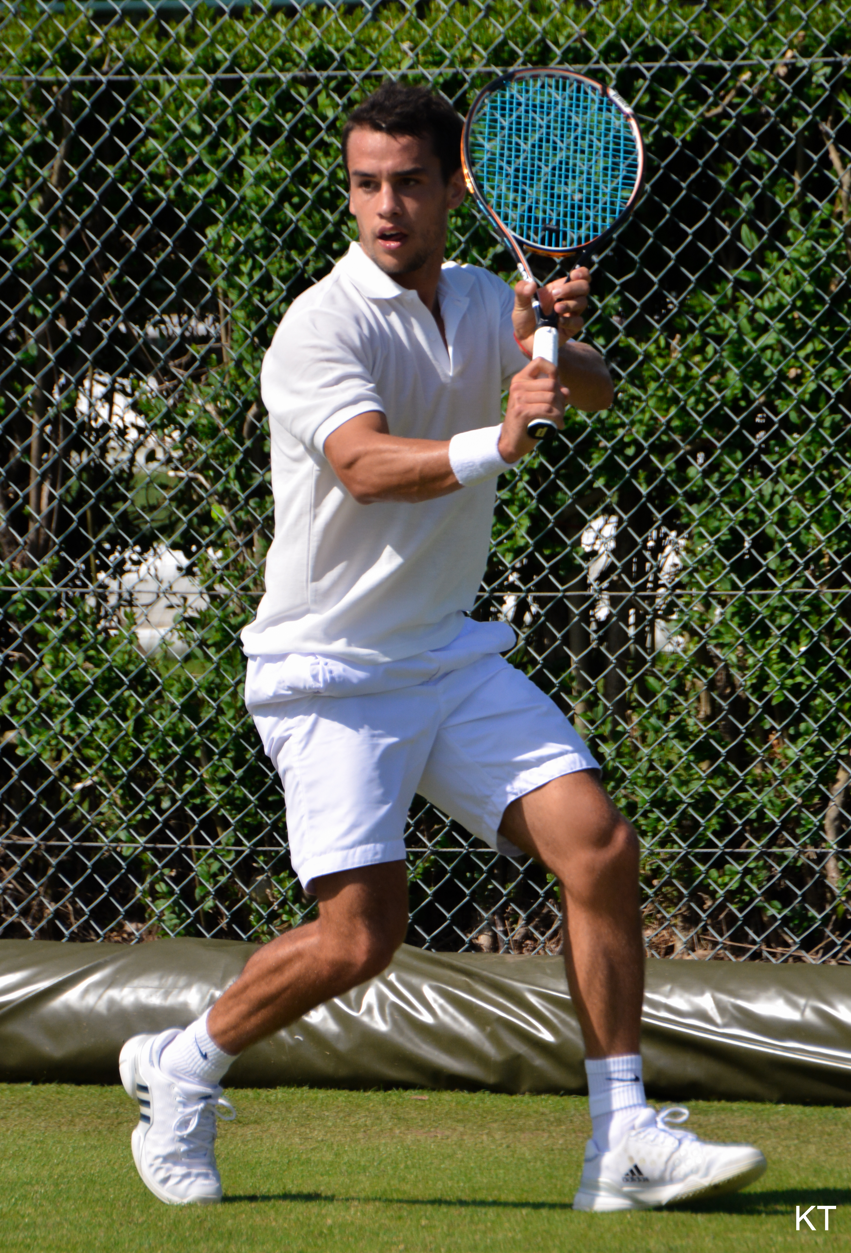 Day 1 of Wimbledon qualifying 2015.